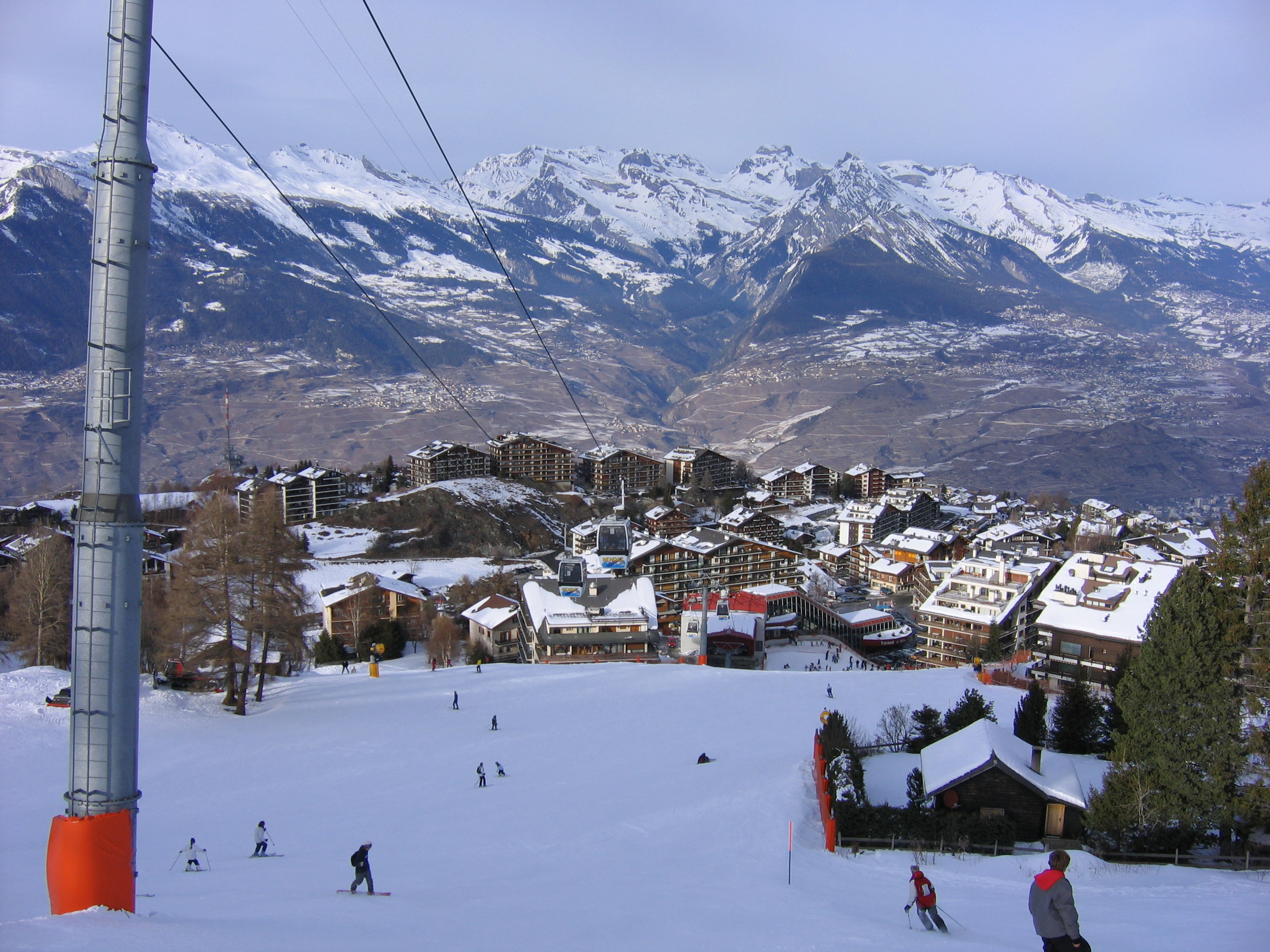 Haute-Nendaz, canton Valais